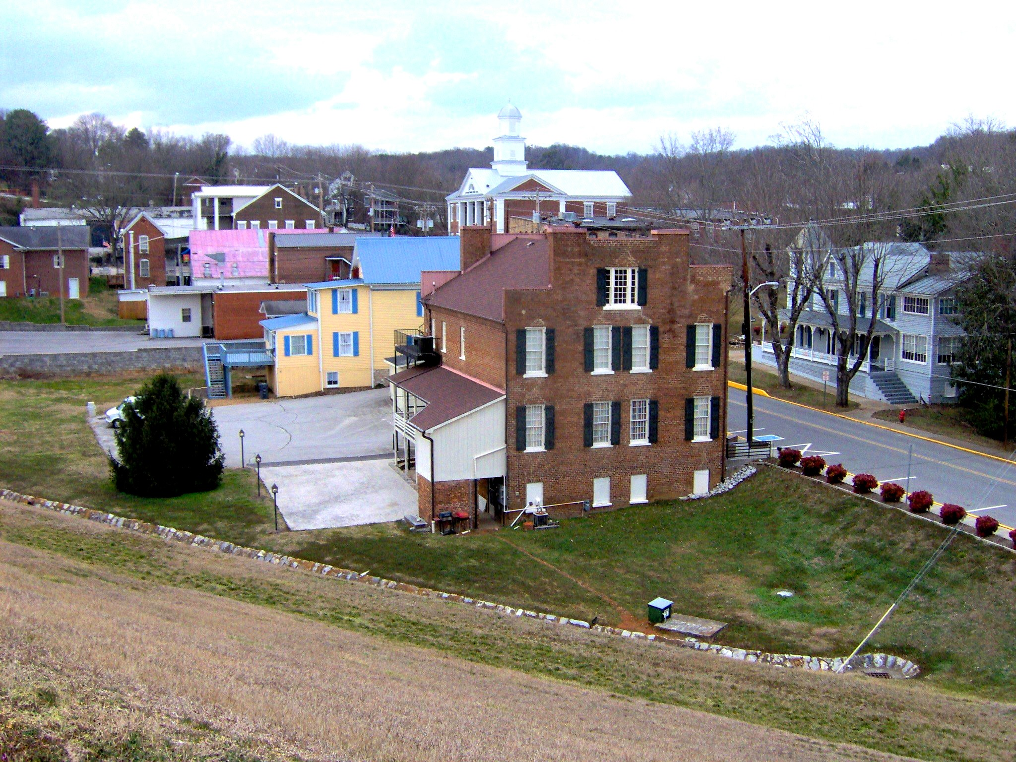 Dandridge, Tennessee, in the southeastern United States. This view of the historic district is from atop the earthen dam that protects that town from Douglas Lake overflows. The historic district includes the courthouse, built in 1845, the Gass General Store building (now Smoky's Steak & BBQ), built in 1826, the town hall, visitor's center, and a cemetery containing the burials of several Revolutionary War veterans.